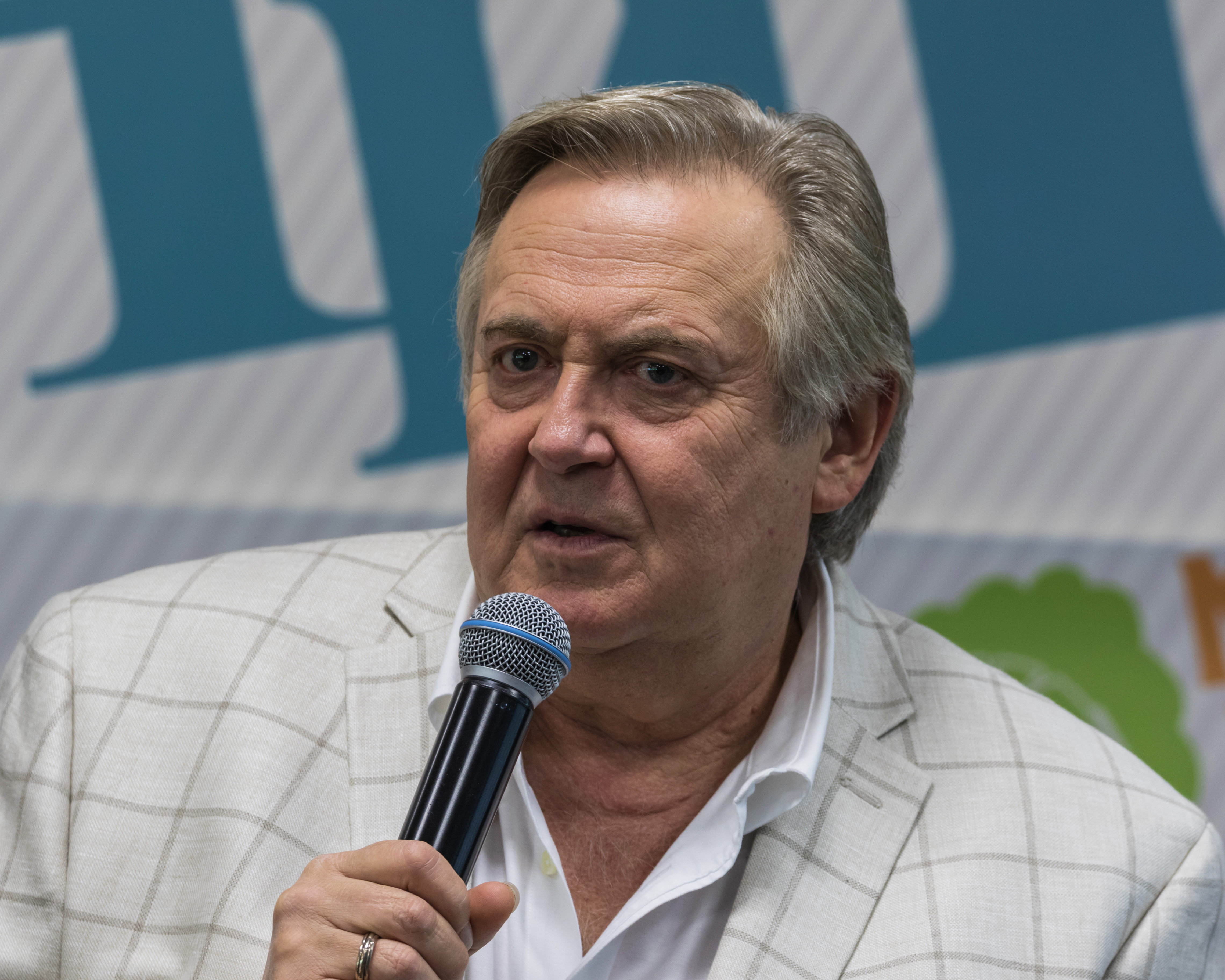 Yuriy Stoyanov (b. 1957) is a Russian actor and TV personality.